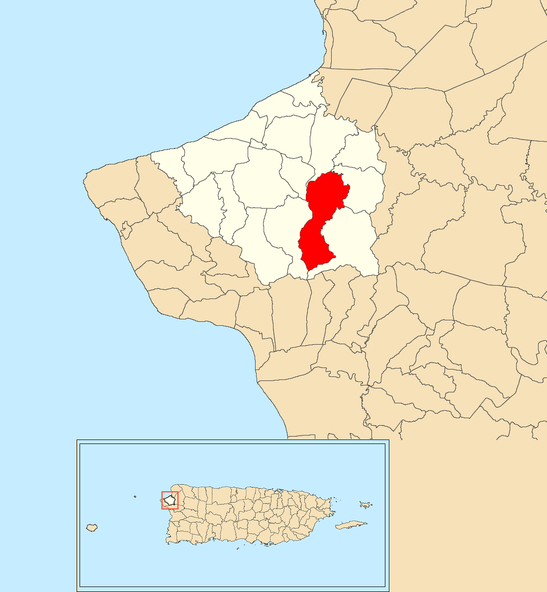 Naranjo, Aguada, Puerto Rico locator map